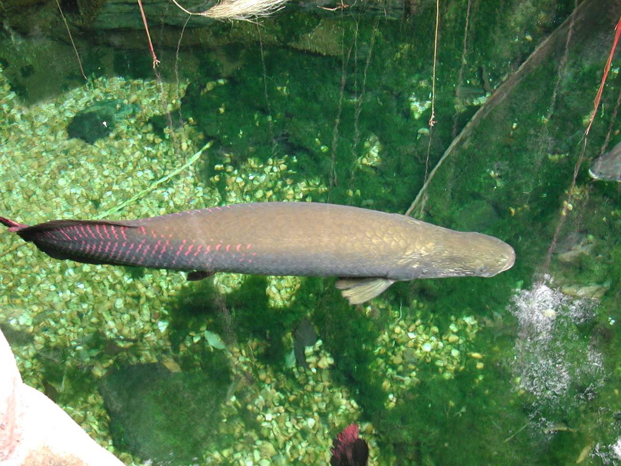 The arapaima is a South American tropical freshwater fish. It is one of the largest freshwater fish in the world, reportedly with a maximum length in excess of 3 m (9.8 ft.) and weight up to 200 kg (440 lb.). As one of the most sought after food fish species in South America, it is often captured primarily by handheld nets for export, by spearfishing for local consumption, and, consequently, large arapaima of more than 2 m are seldom found in the wild today.